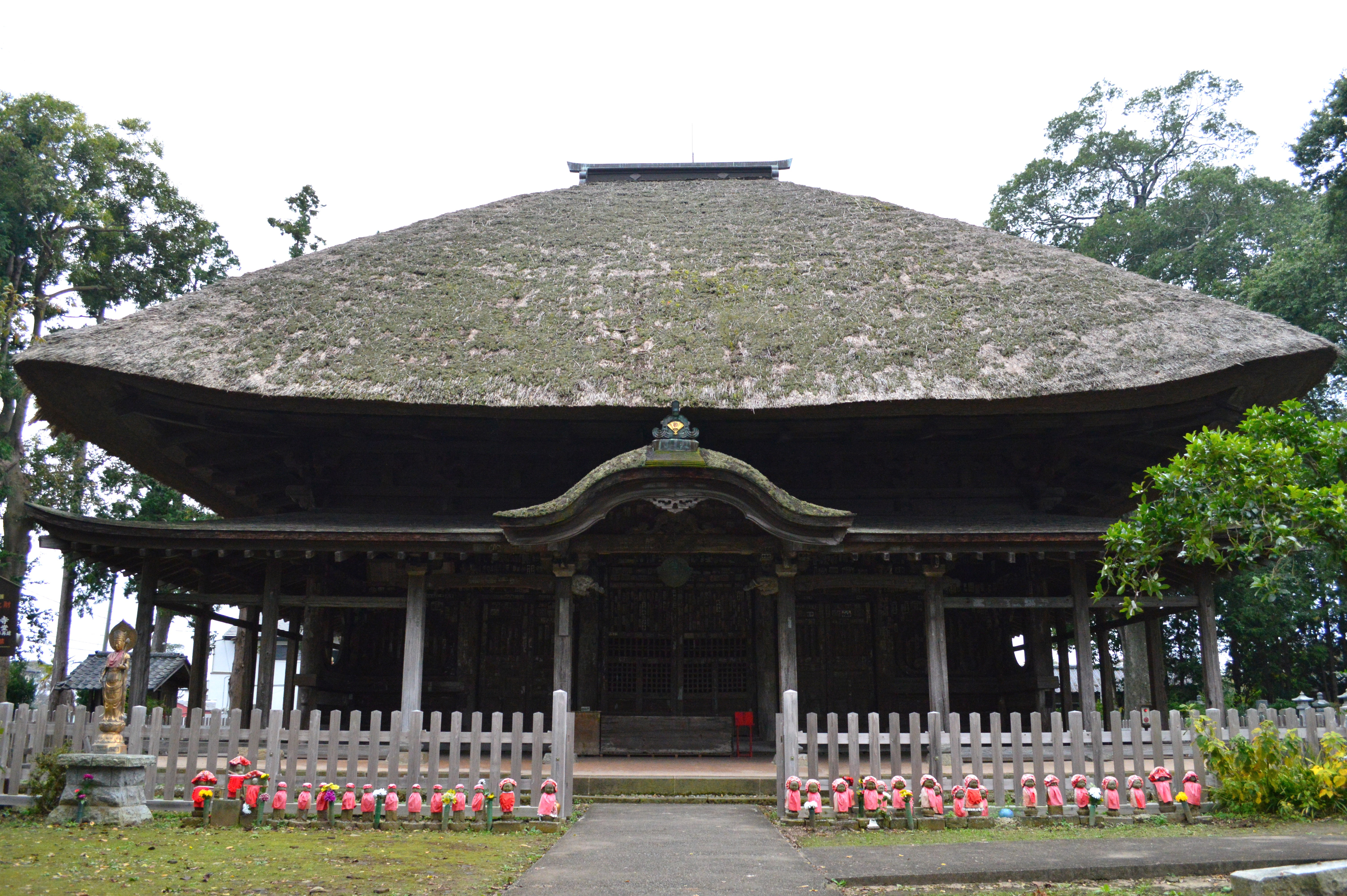 Main hall of Satake-ji temple in Hitachiōta, Ibaraki